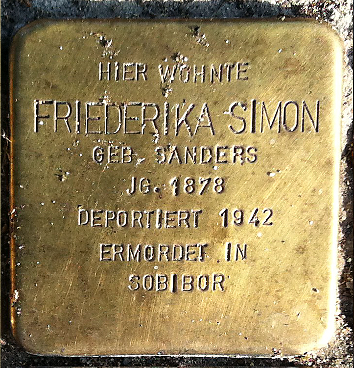 Stolperstein - Stumbling Stone in Nettetal, NRW, Germany Friederika Simon